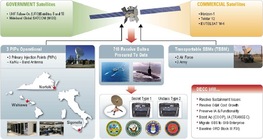 U.S. Department of Defense's Global Broadcast Service (GBS) consept of operations overview, circa 2010